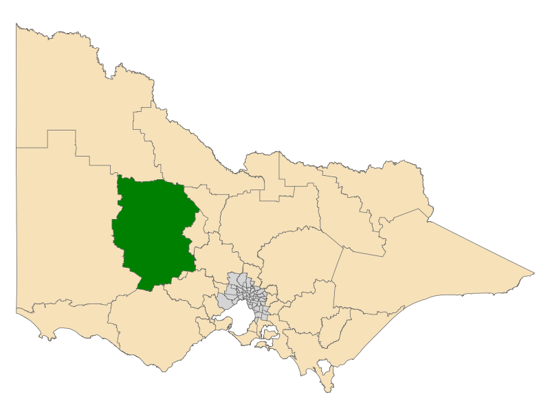 Location of the Electoral District of Ripon (dark green) in the state of Victoria, Australia. These boundaries were used for the Victorian state election on 29 November 2014.